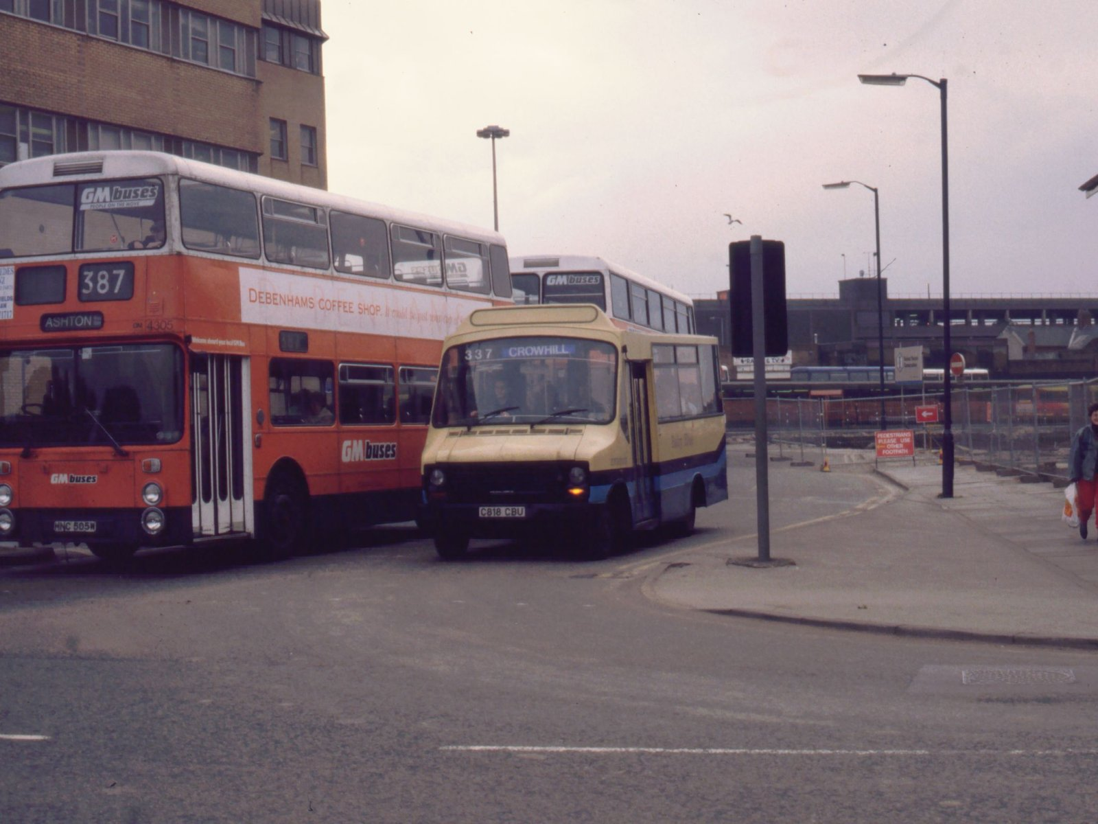 Former GM Buses 1818 C818CBU a Northern Counties-bodied Dodge S50 seen in service with Pennine Blue on the 337 route (Hazelhurst-Crowhill). When this batch entered service, one of the first routes to be converted to minibus operation was the 337 which was renumbered A1 and branded as Ashton-mini-Lyne.